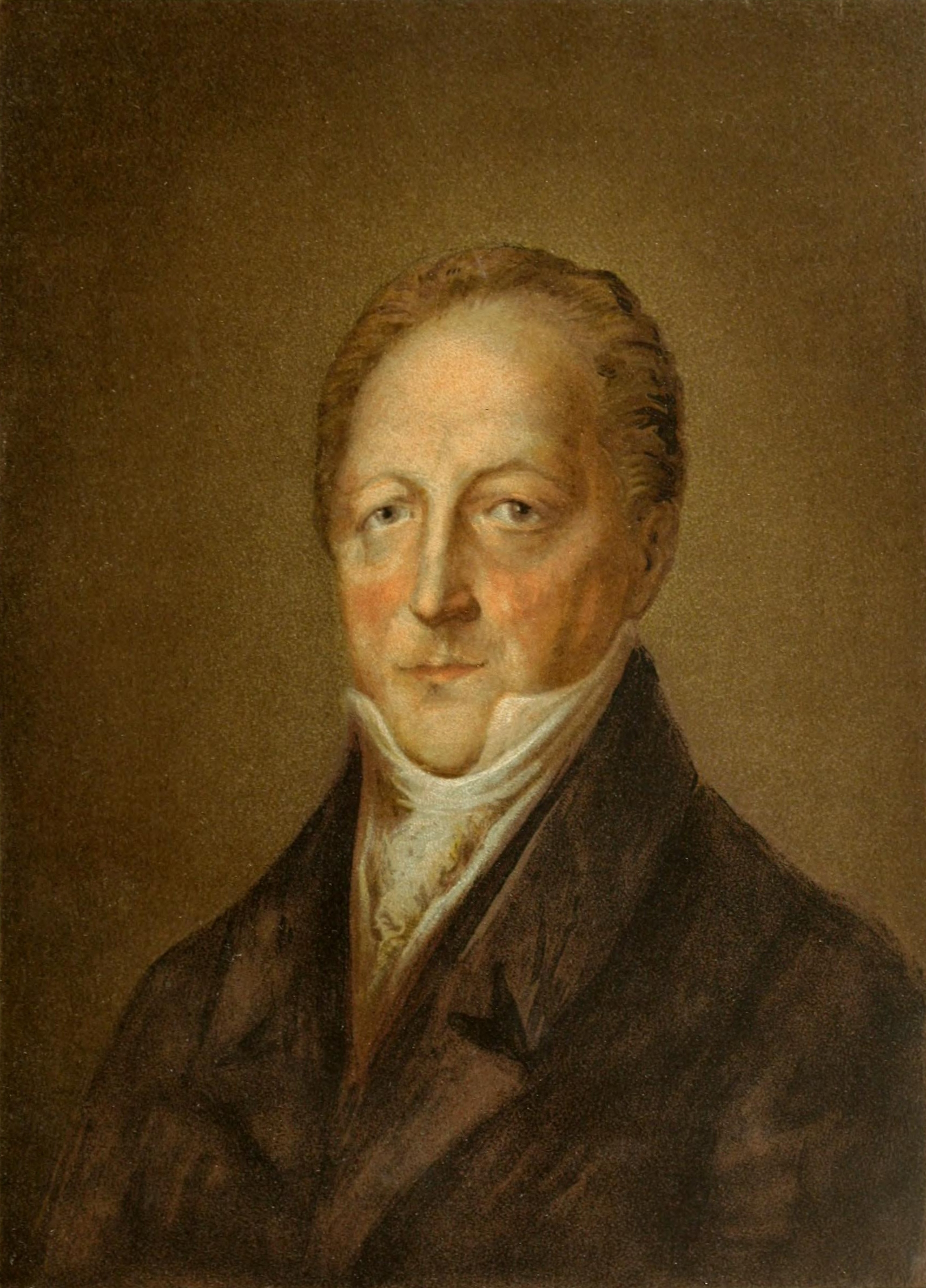 Sergey Lvovich Pushkin, father of Alexander Pushkin